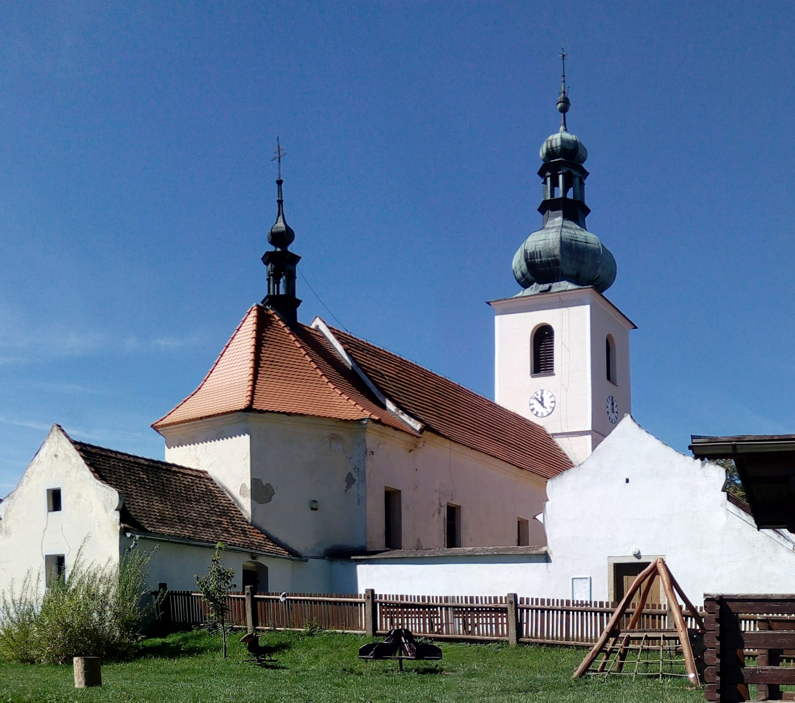 Church of Saint John of Nepomuk in the village of Svatý Jan nad Malší, South Bohemian Region, Czechia